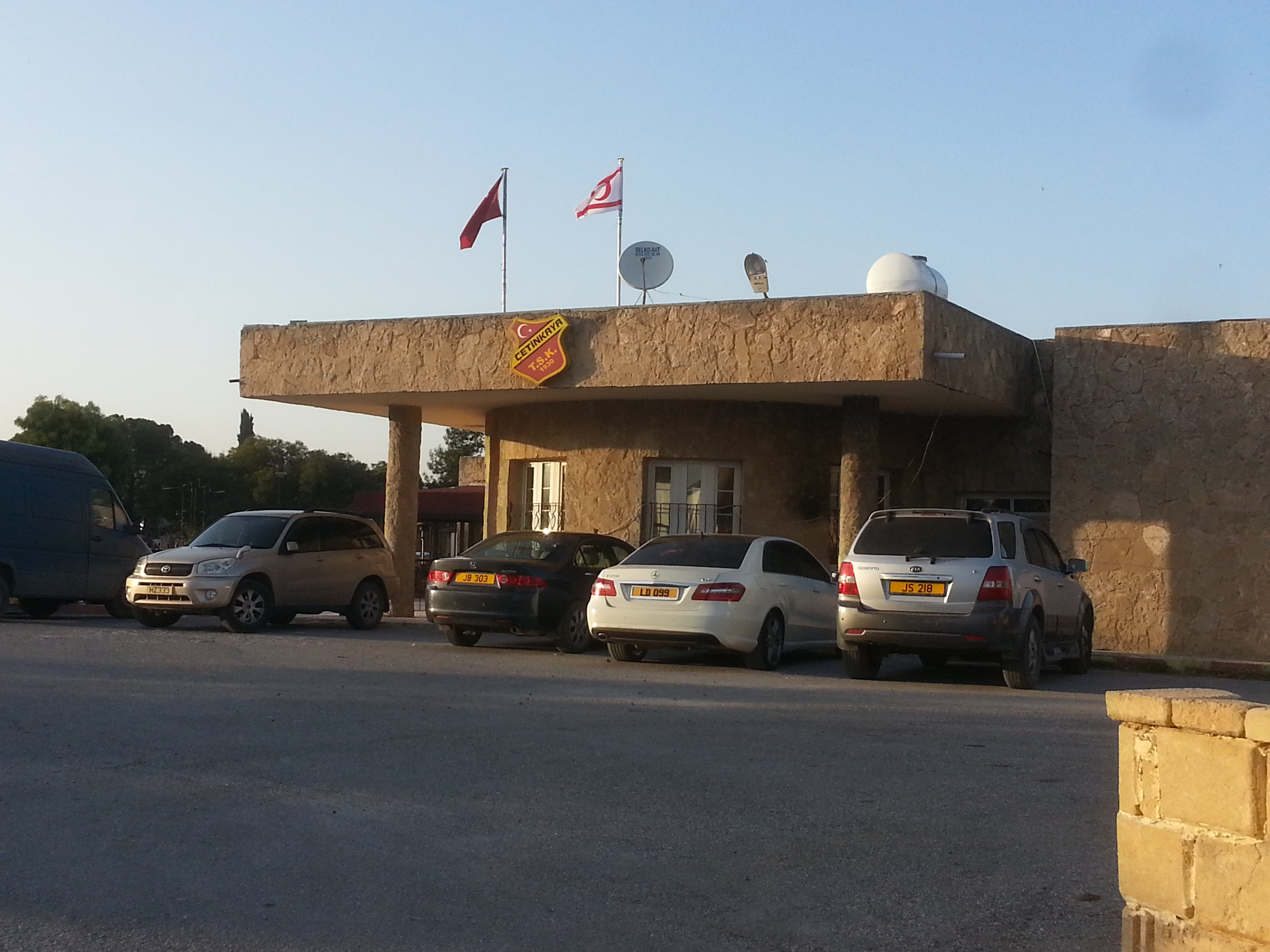 The headquarters of Çetinkaya TSK on Zahra Street, Arab Ahmet, North Nicosia.